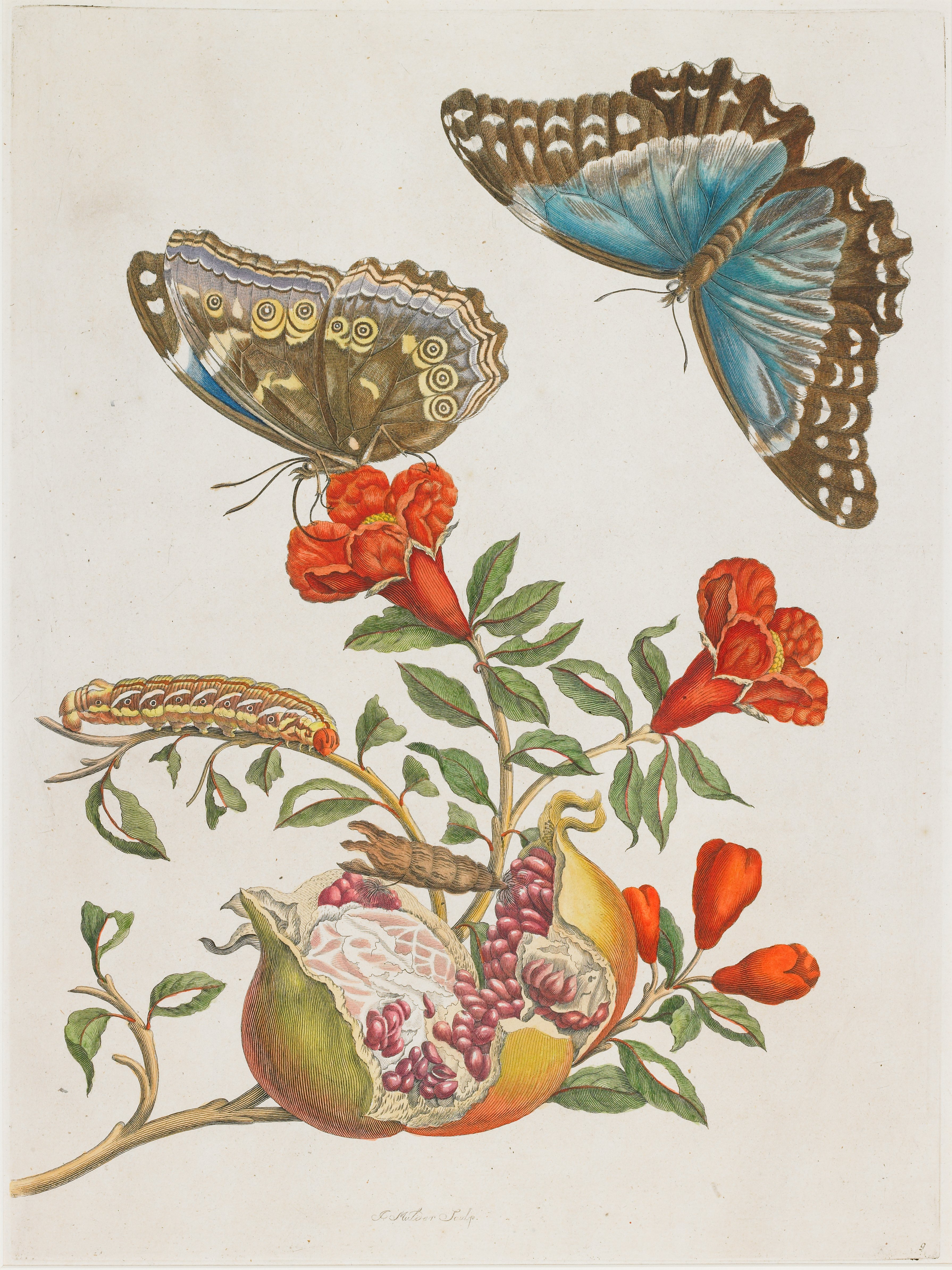 Illuminated Copper engraving from Metamorphosis insectorum Surinamensium, Plate IX. Maria Sibylla Merian, 1705